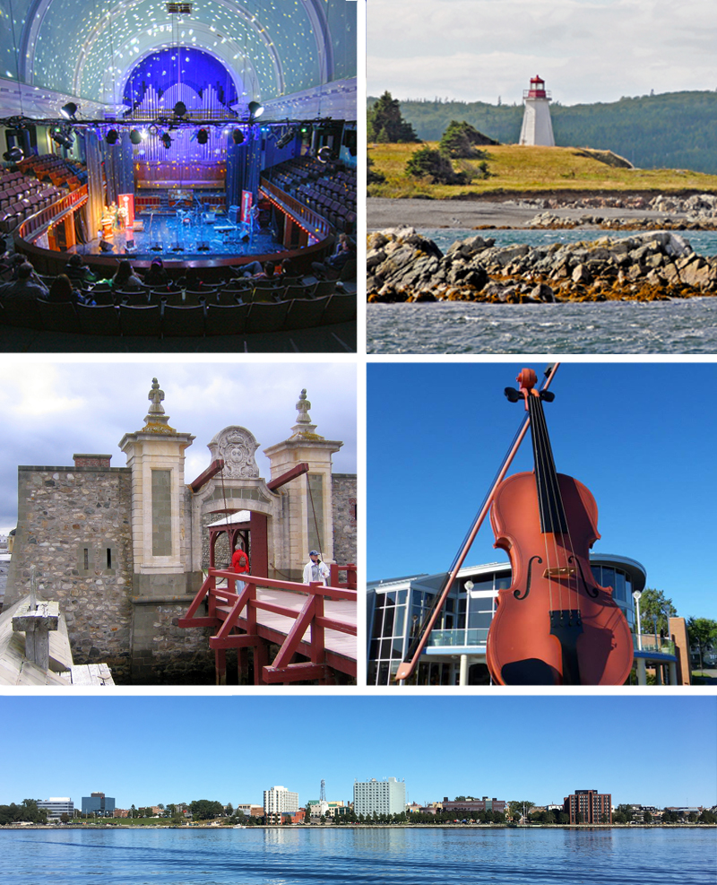 Montage of sites in the Cape Breton Regional Municipality 2018